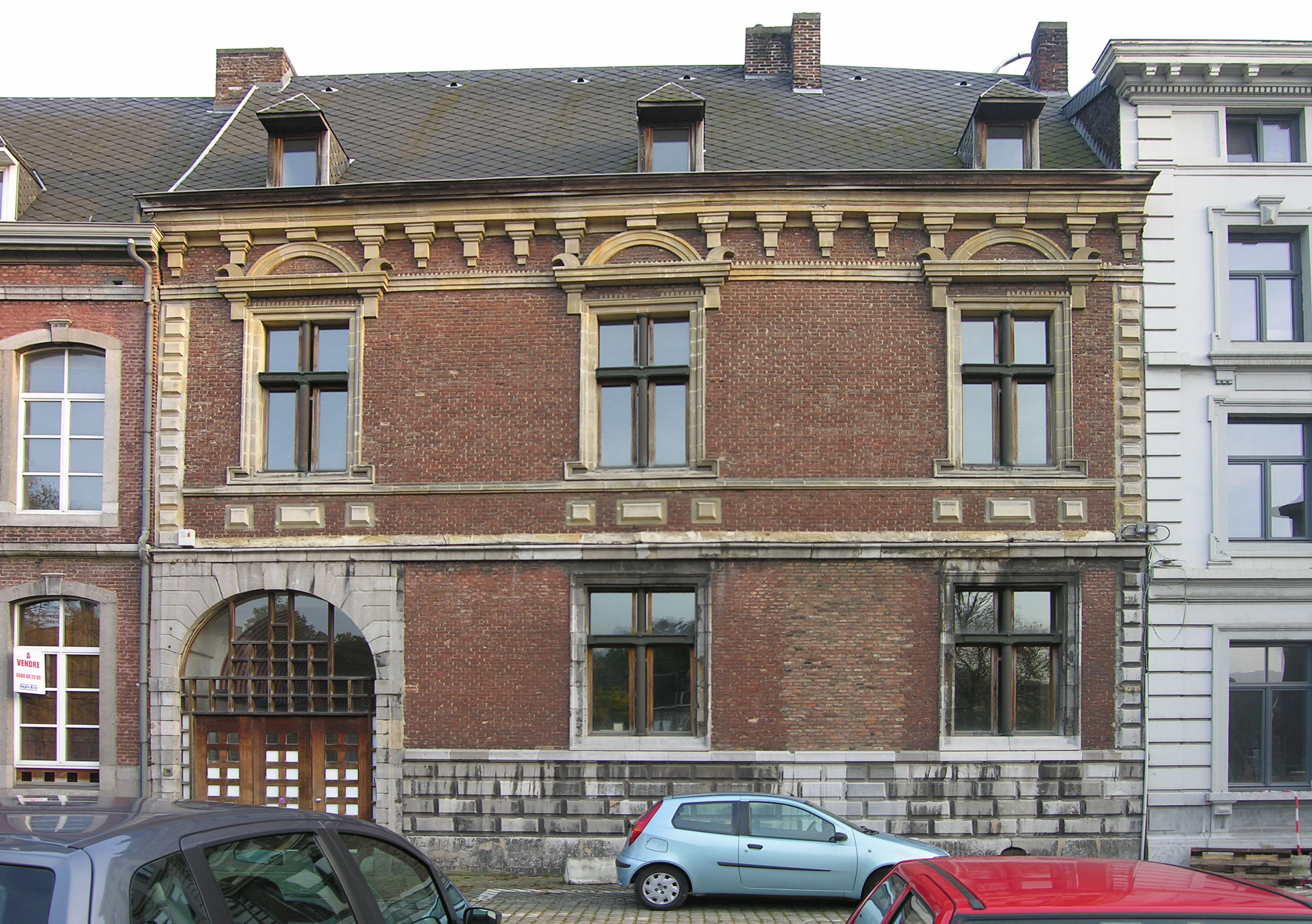 Liège (Belgium), Charles Vandenhove, Torrentius House (Huis van der Beke)